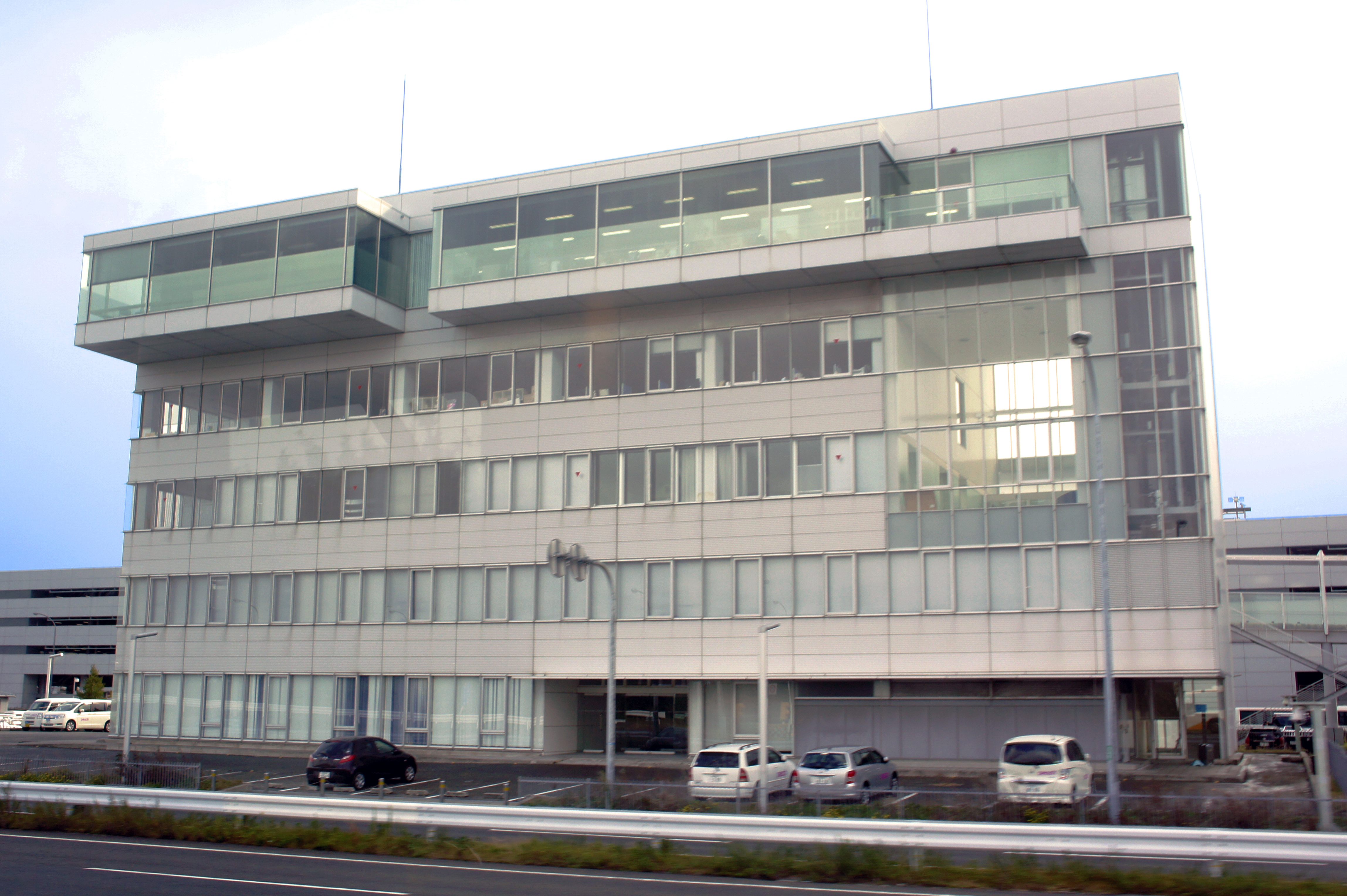 Kensetsu-to, the headquarters of Peach Aviation and the Kansai International Airport Land Development Co.,Ltd. (KALD) - Kansai International Airport Kensetsu-to, 1 Senshukuko-kita Izumisano-shi Osaka Japan.